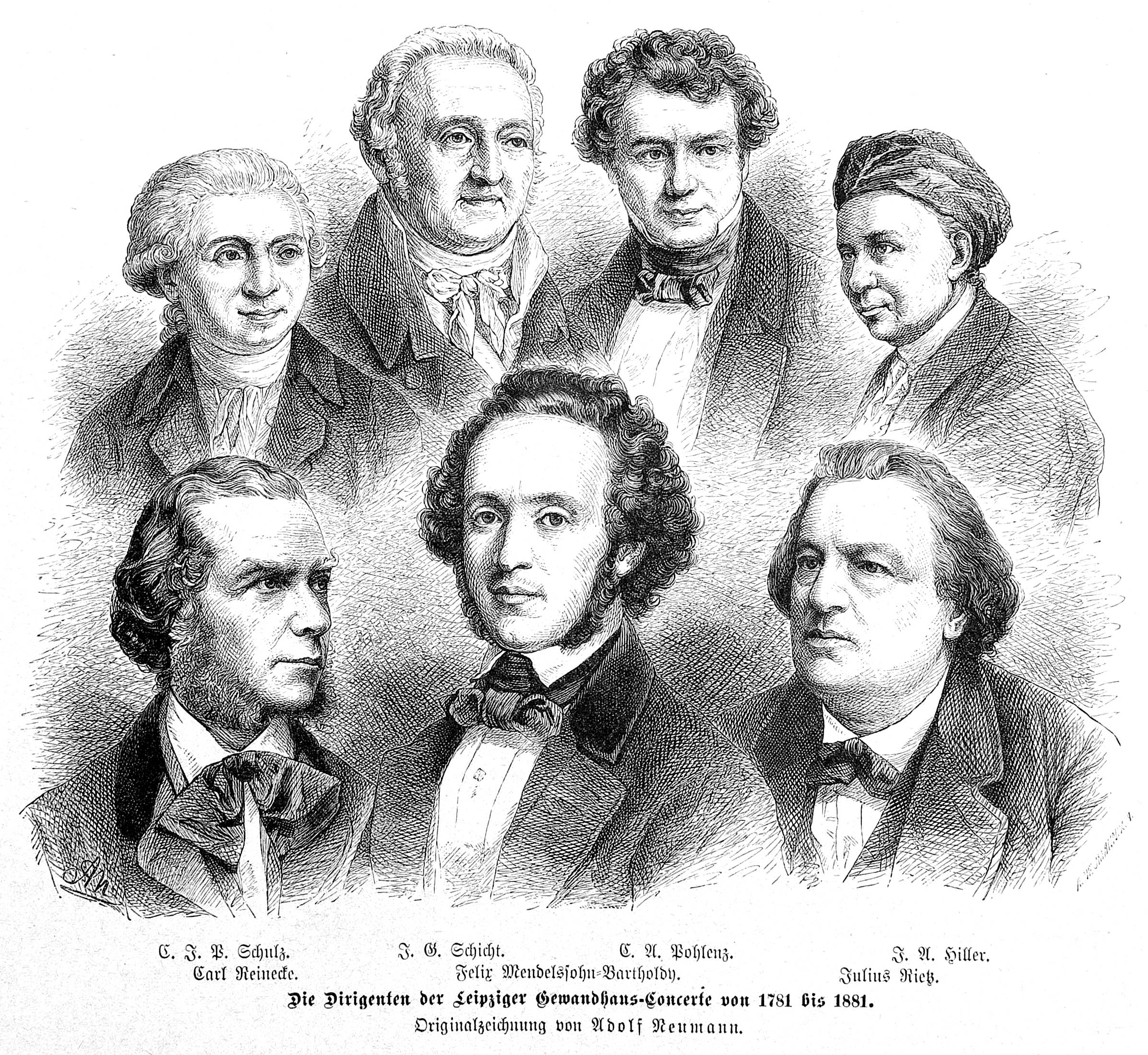 Image from page 791 of journal Die Gartenlaube, 1881.